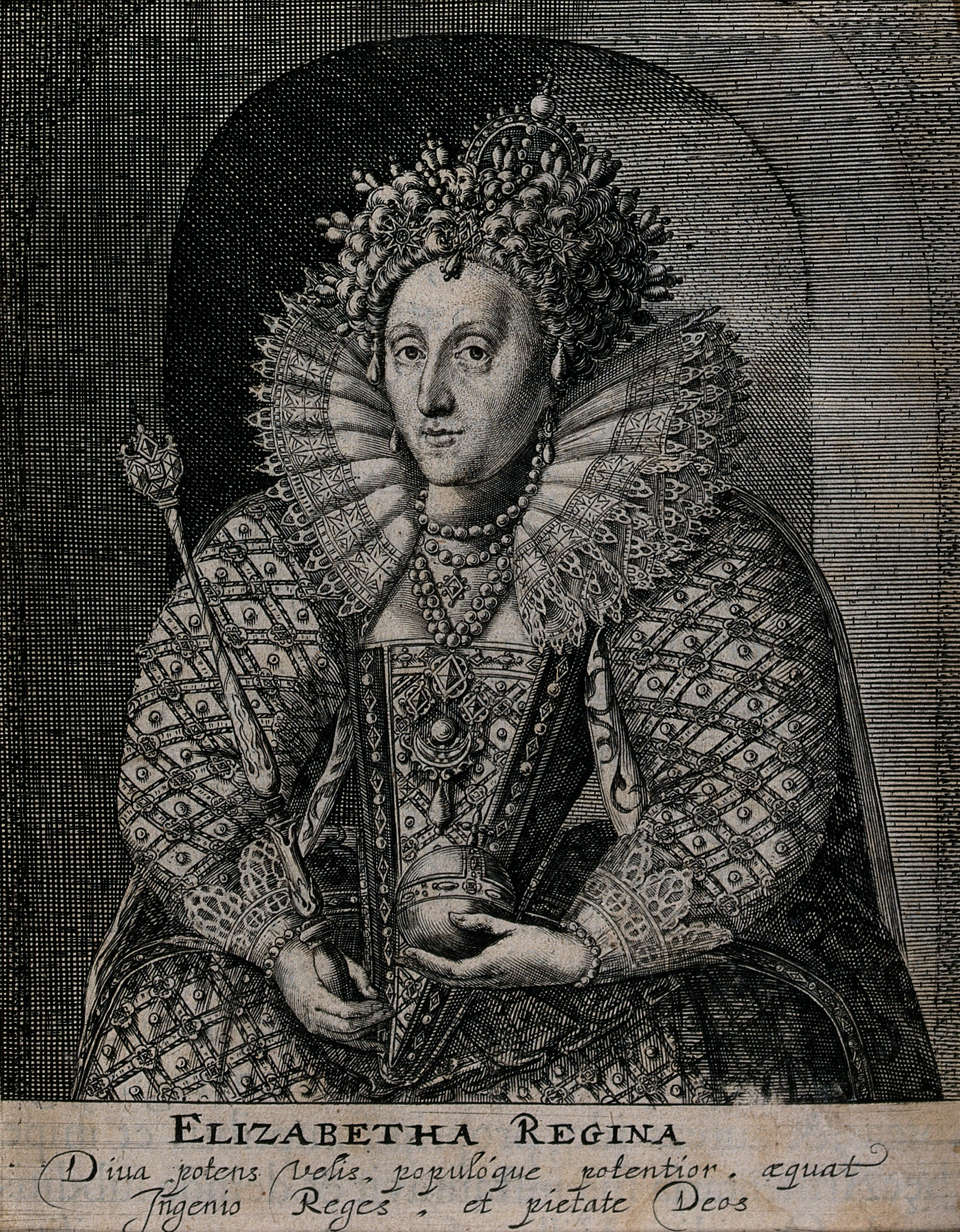 Queen Elizabeth I, holding a sceptre and an orb, wearing the dress she customarily wore at the opening of Parliament. Iconographic Collections Keywords: Isaac. Oliver